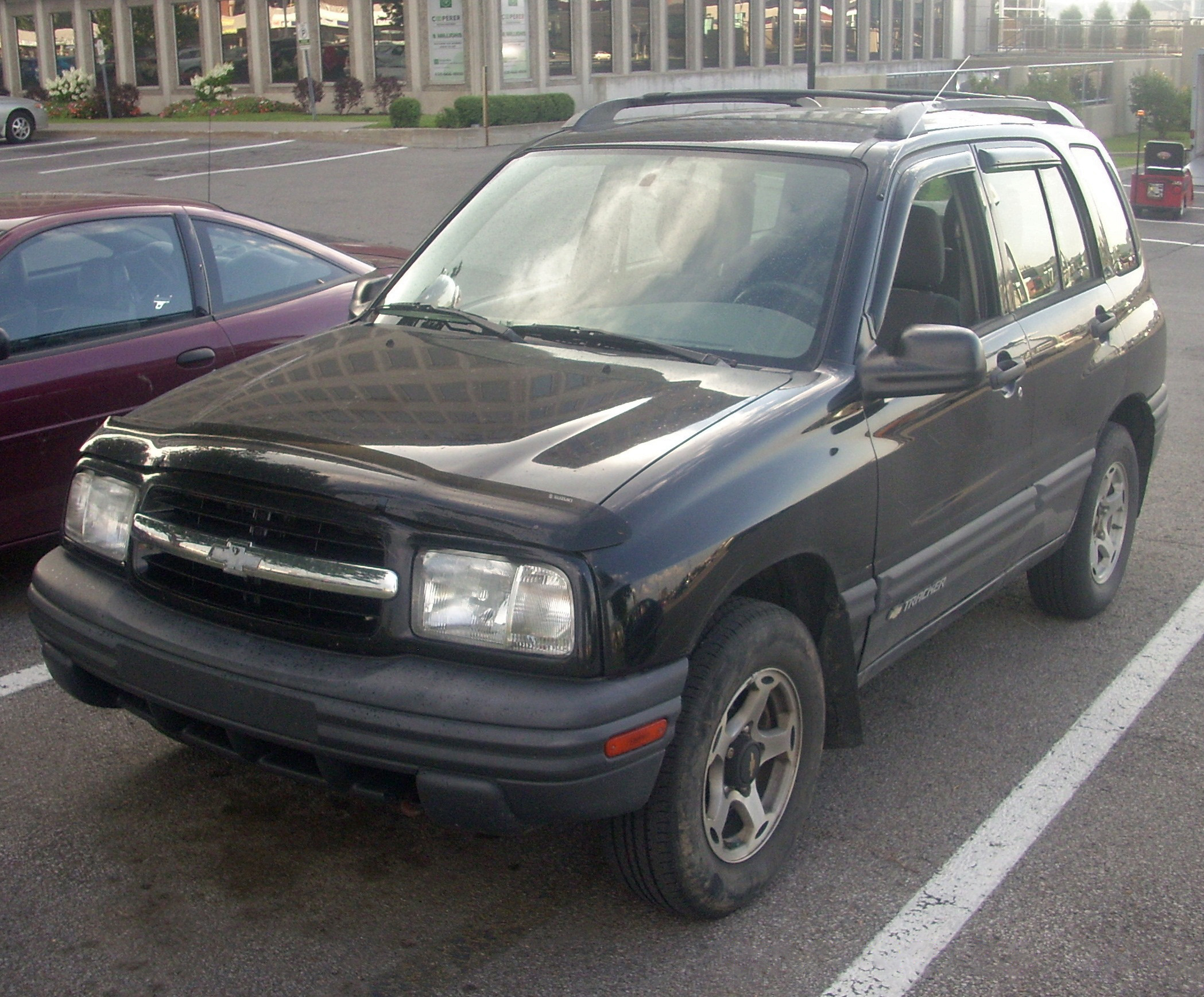 Chevrolet Tracker photographed in Laval, Quebec, Canada at Les chauds vendredis 2010.